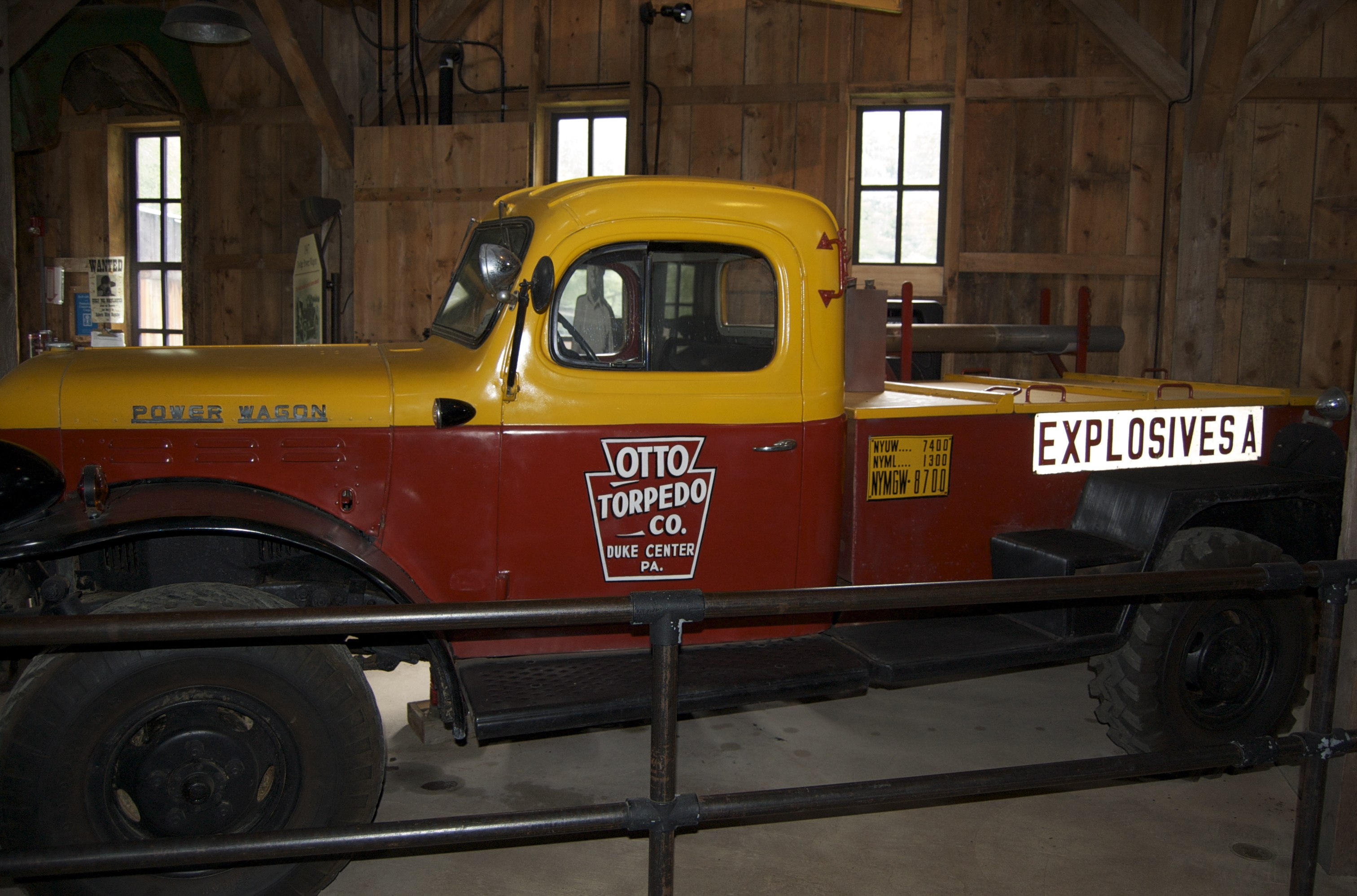 A 1947 Dodge Power Wagon used by the Otto Torpedo Company to transport nitroglycerin torpedoes.